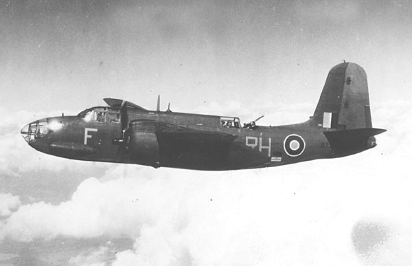 A Douglas Boston Mk. III of No. 88 Squadron, Royal Air Force, about 1942. The first Boston.IIIs were delivered from the United States in the summer of 1941, and the first squadron to receive them was No. 88 Sqn. based at Swanton Morley, Norfolk (UK). This squadron flew the type until it was replaced in April 1945.